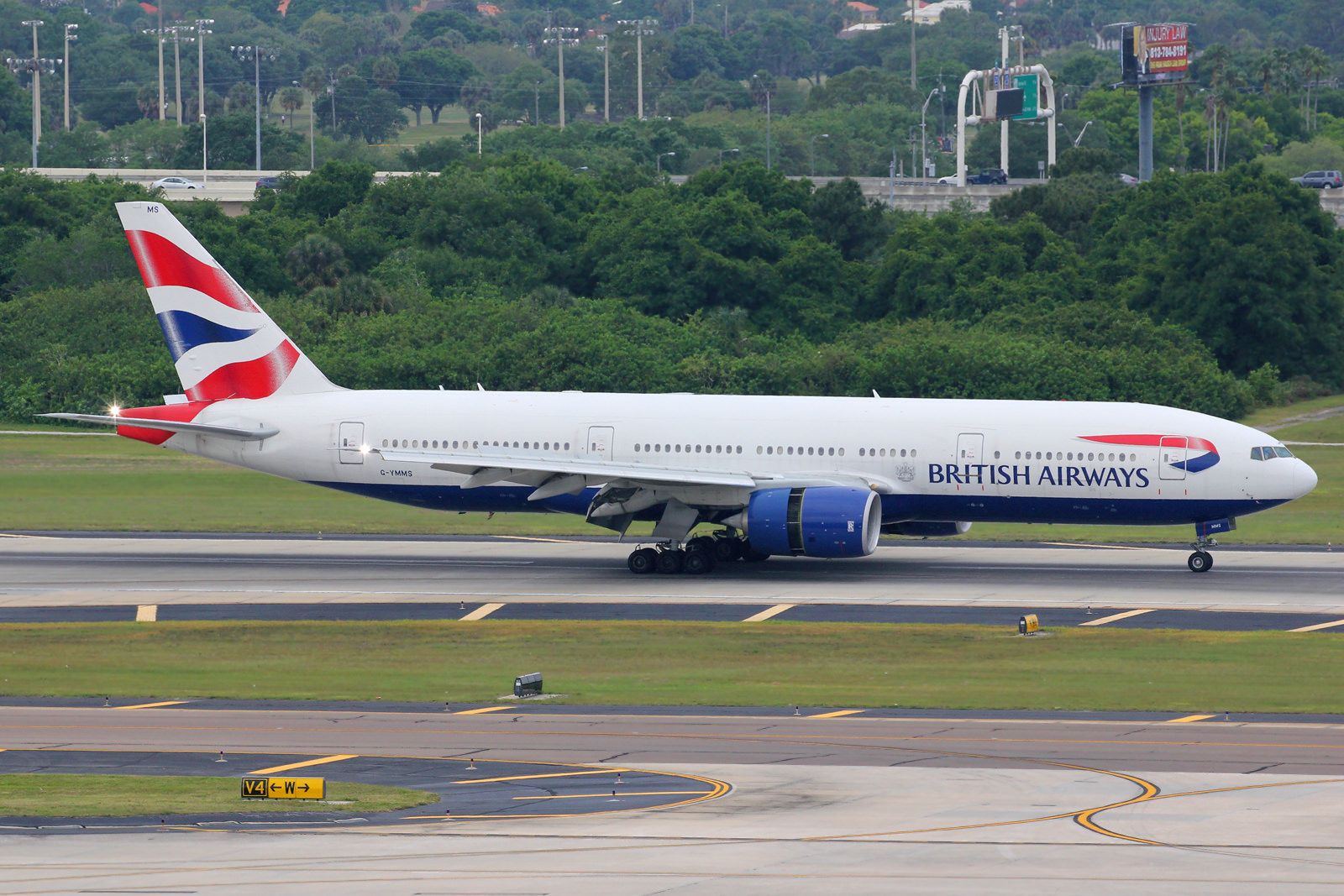 A British Airways Boeing 777-200ER at Tampa Airport, Florida, USA. Just arrived from Gatwick Airport in London.